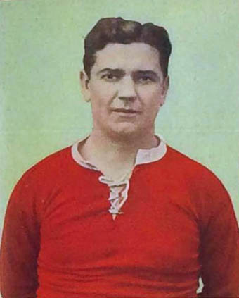 Manuel Seoane, player of CA Independiente.